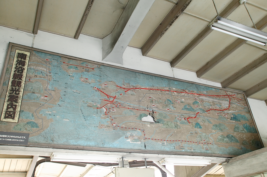 A inside view of The Nankai Electric Railway Shiomibashi Station, Osaka Japan.